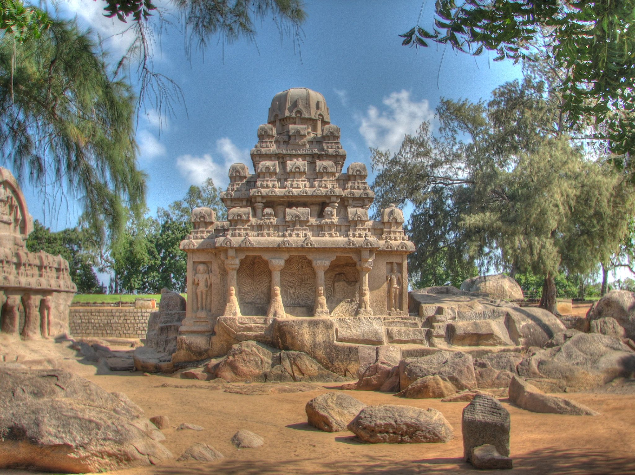 Five Raths 06 HDR